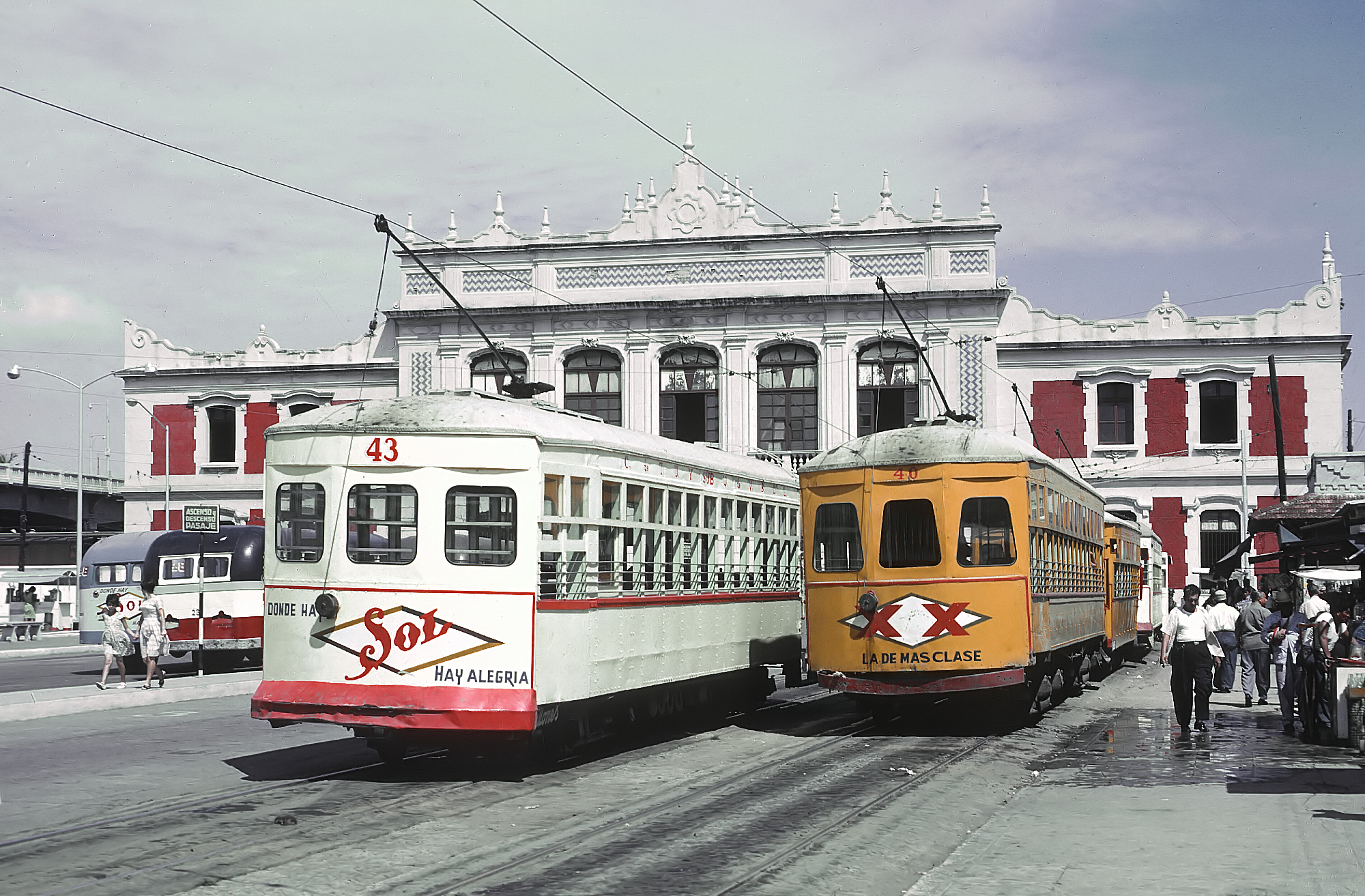 A Roger Puta photograph